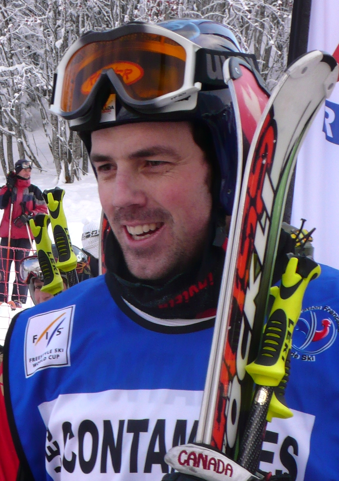 Stanley Hayer at Les Contamines-Montjoie on 2010-01-10)